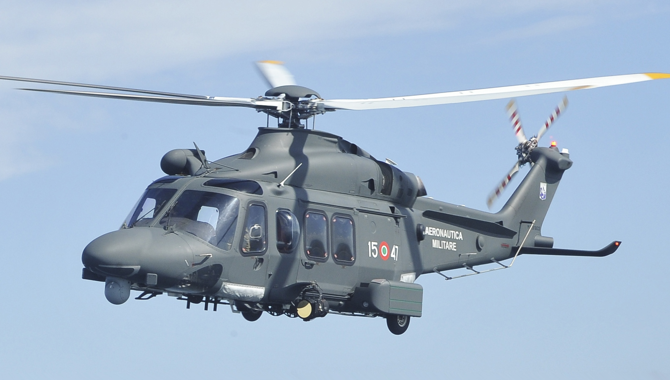 An Italian Helicopter HH139 C.S.A.R. during Trident Juncture 15.